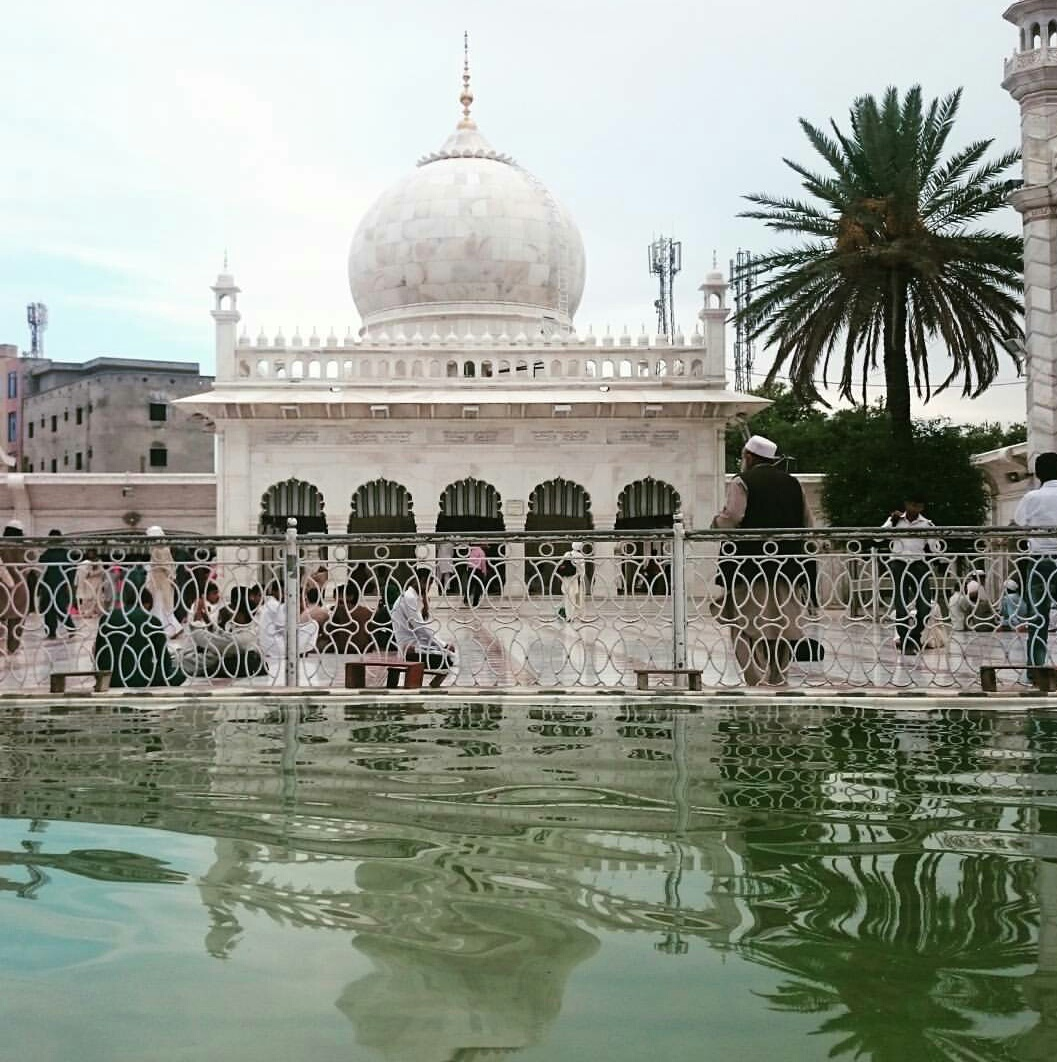 Mausoleum of Meher Ali Shah This is a photo of a monument in Pakistan identified as the ICT-1